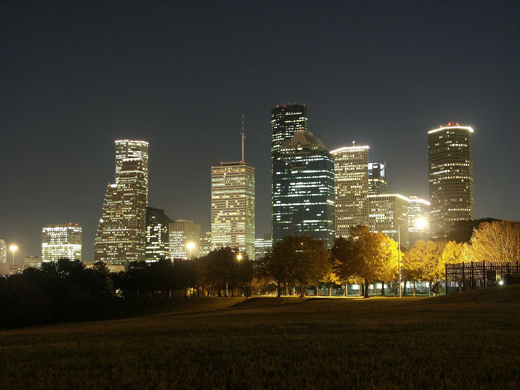 Downtown Houston